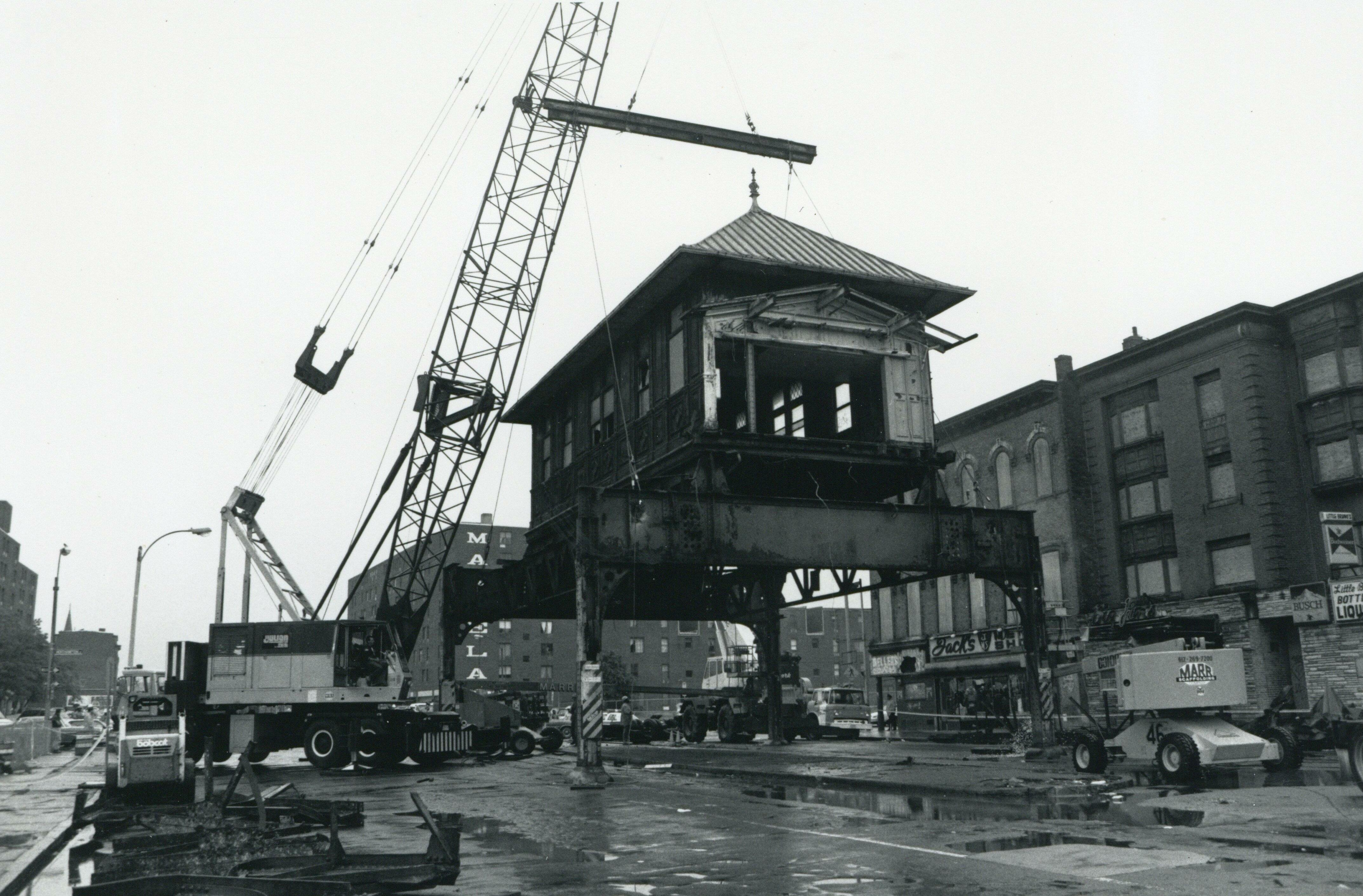 Demolition of Northampton station in 1987